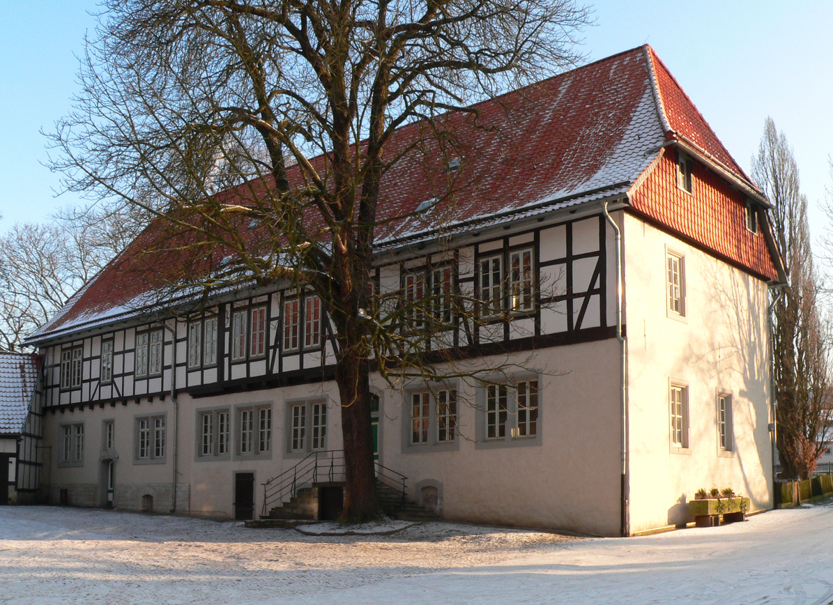 Burg Gebhardshagen, Amtshaus